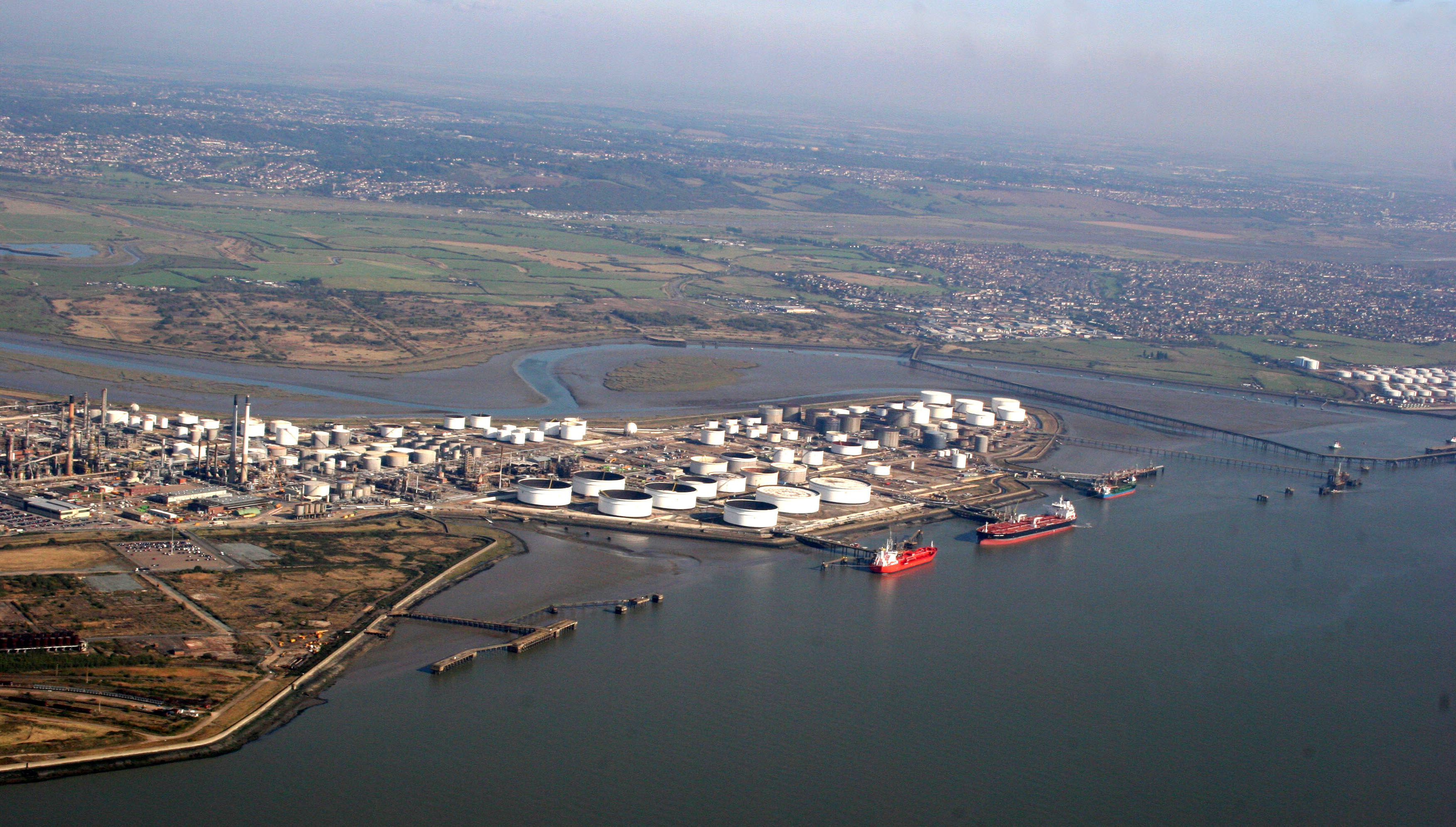 aerial photo of coryton oil refinery